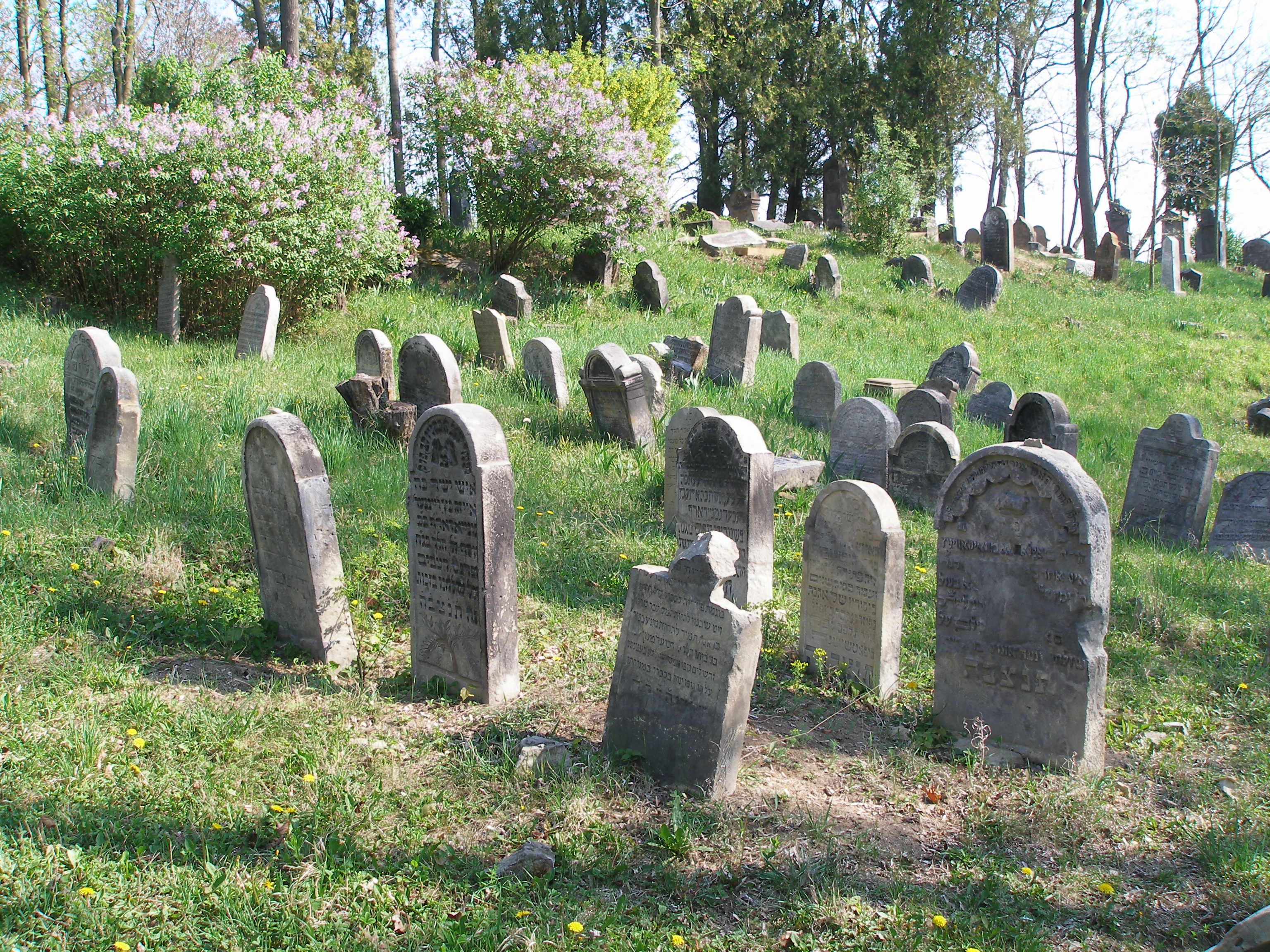 Jewish cemetery near Spomyšl.